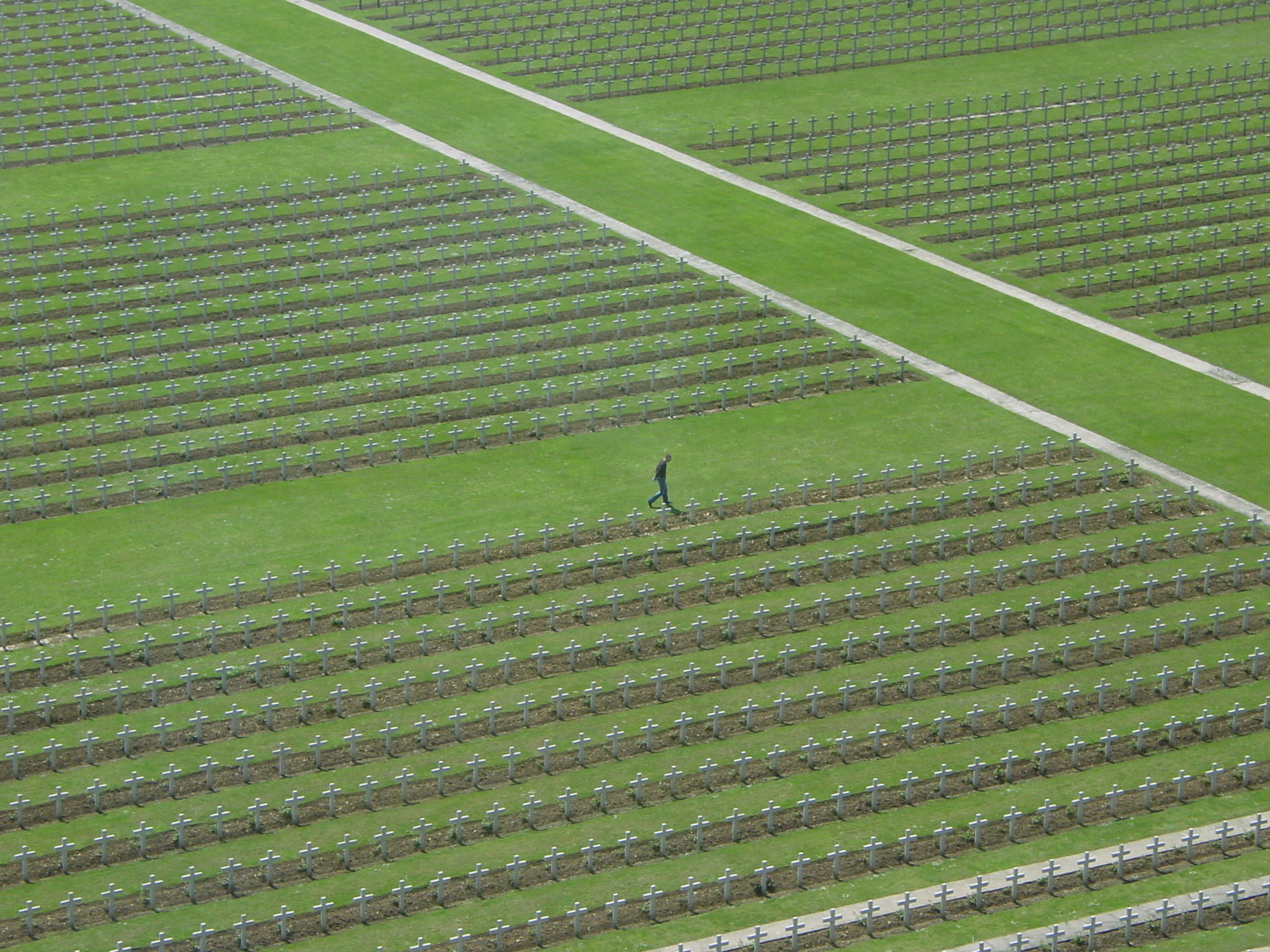 View from the tower of the Douaumont ossuary.